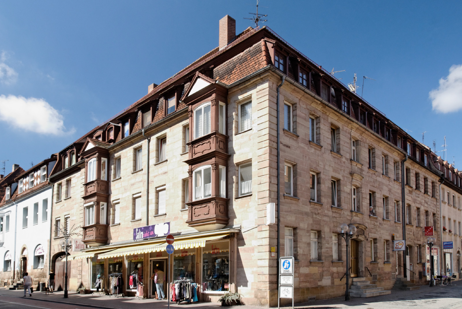 House Alexanderstraße 22 in Fürth, Germany